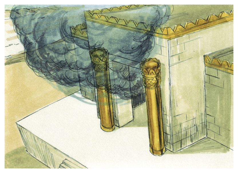 Biblical illustration of First Book of Kings Chapter 8